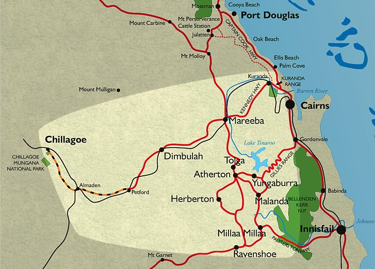 Atherton Tablelands Map - Queensland, Australia